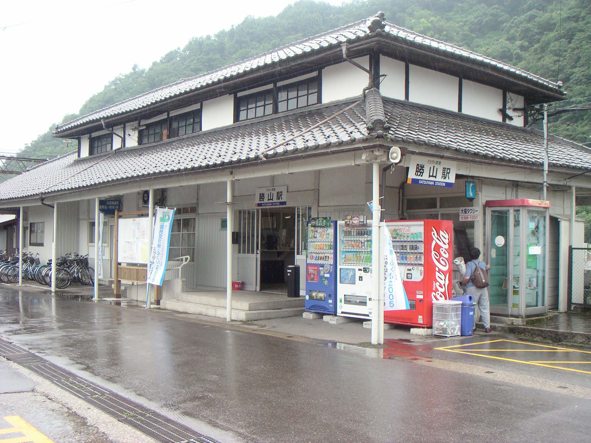 Katsuyama Station